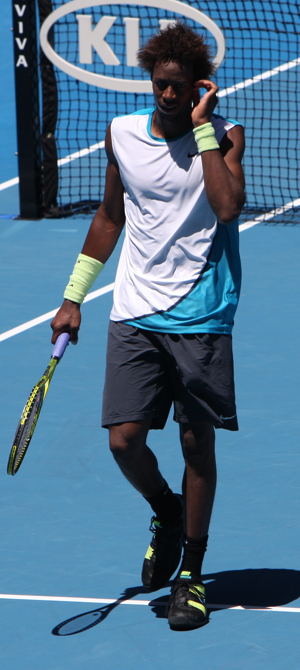 Gaël Monfils at 2009 Australian Open, Melbourne, Australia.